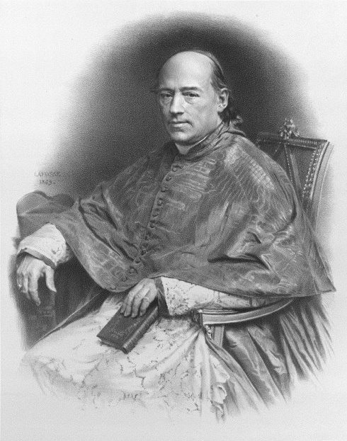 Karl August von Reisach, cardinal of the Roman Catholic Church